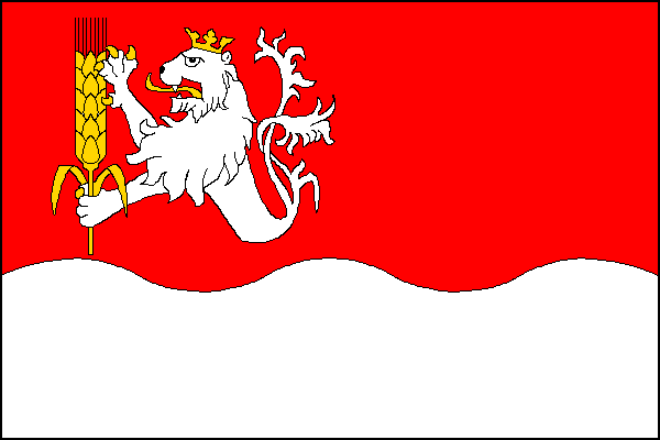 Municipal flag of Mlékojedy village, Litoměřice District, Czech Republic.